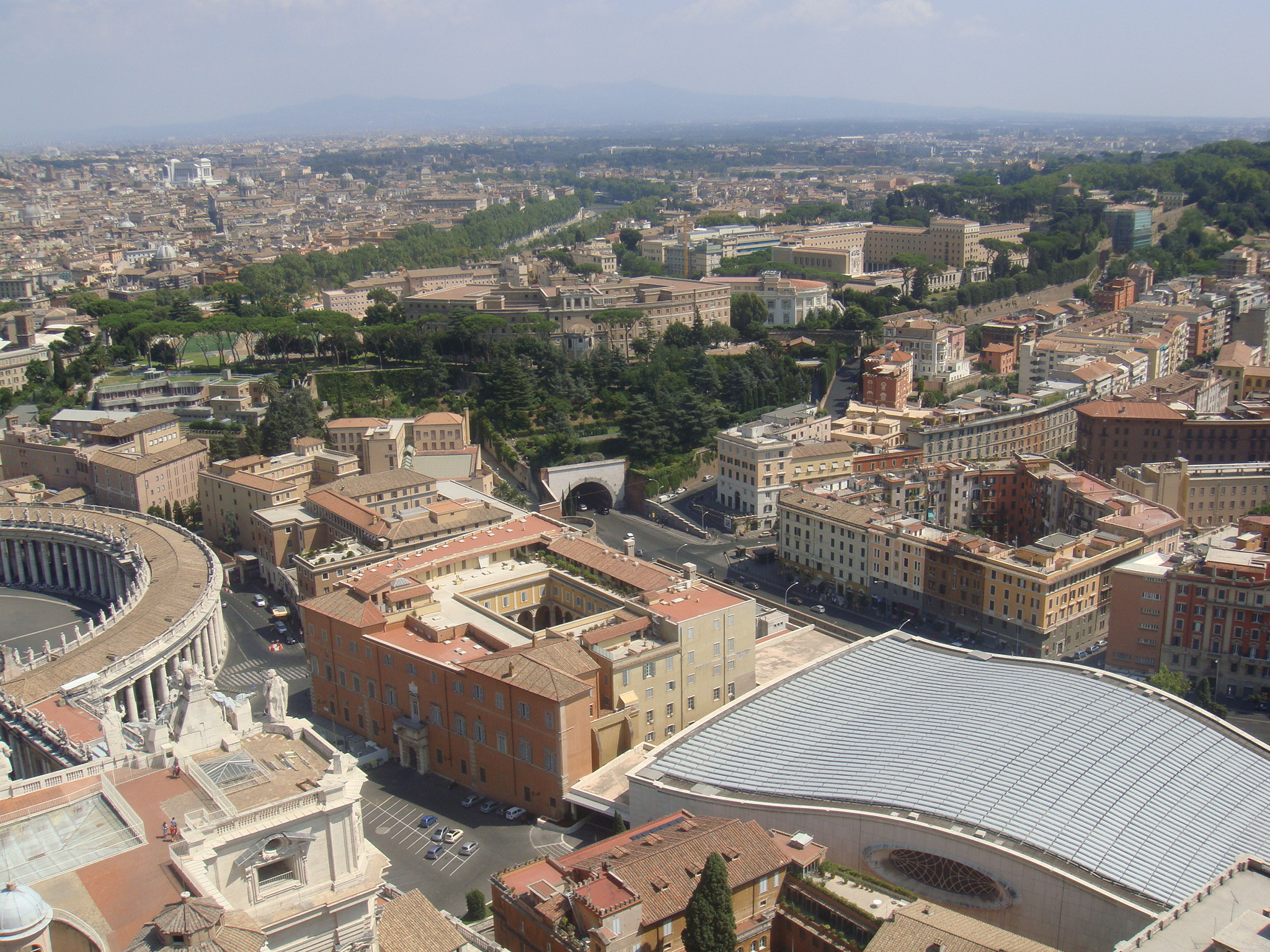 00120 Vatican City